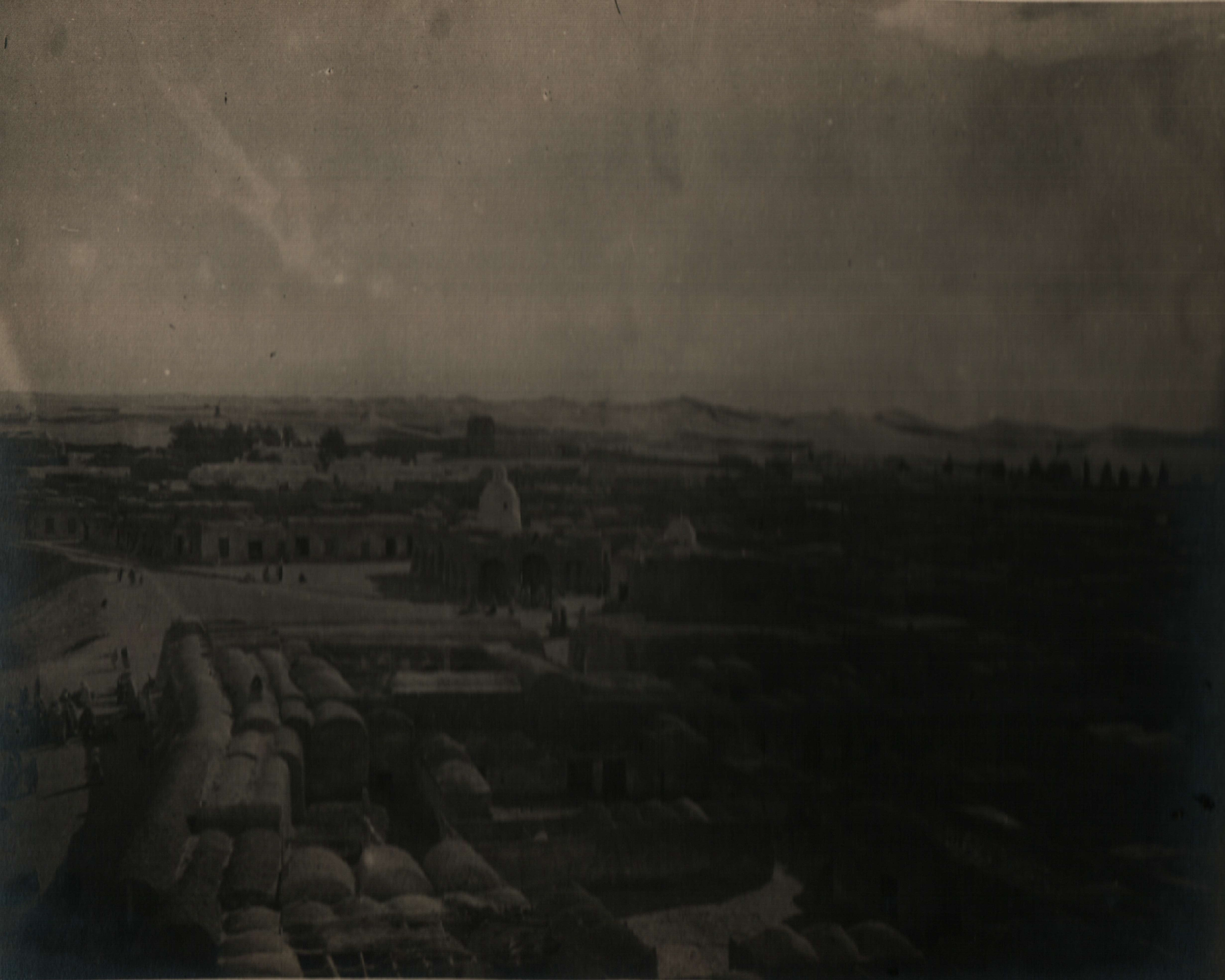 El Oued, Algeria. Views and photos of the Sahara desert and other regions in Africa.